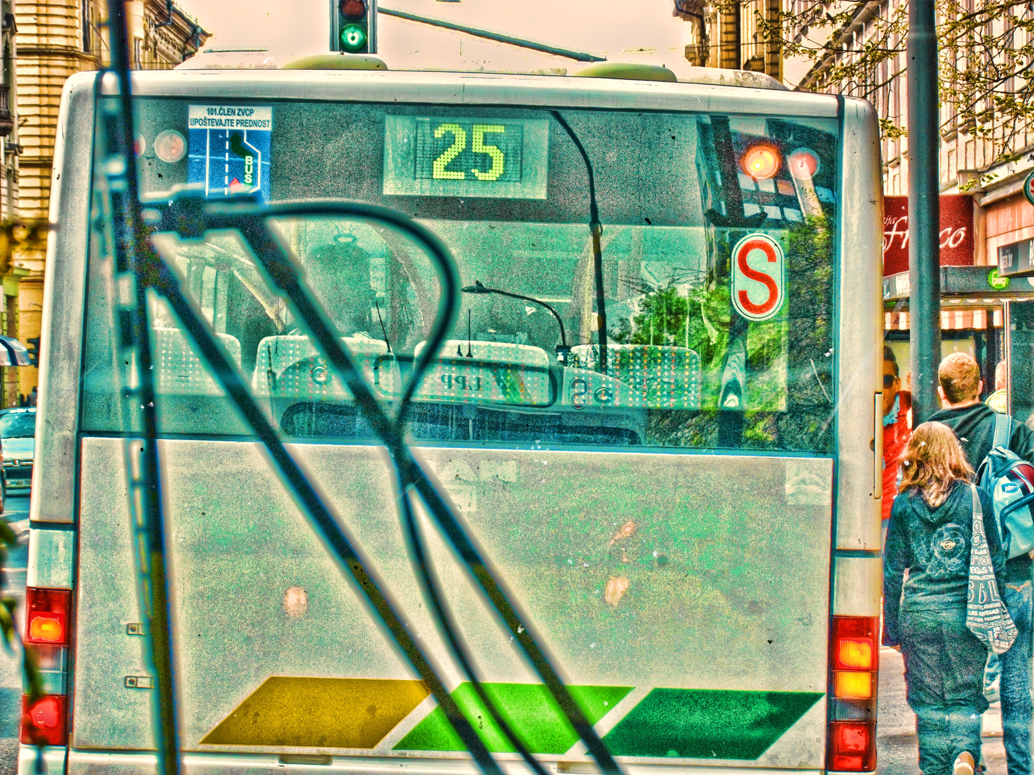 Buses in Ljubljana